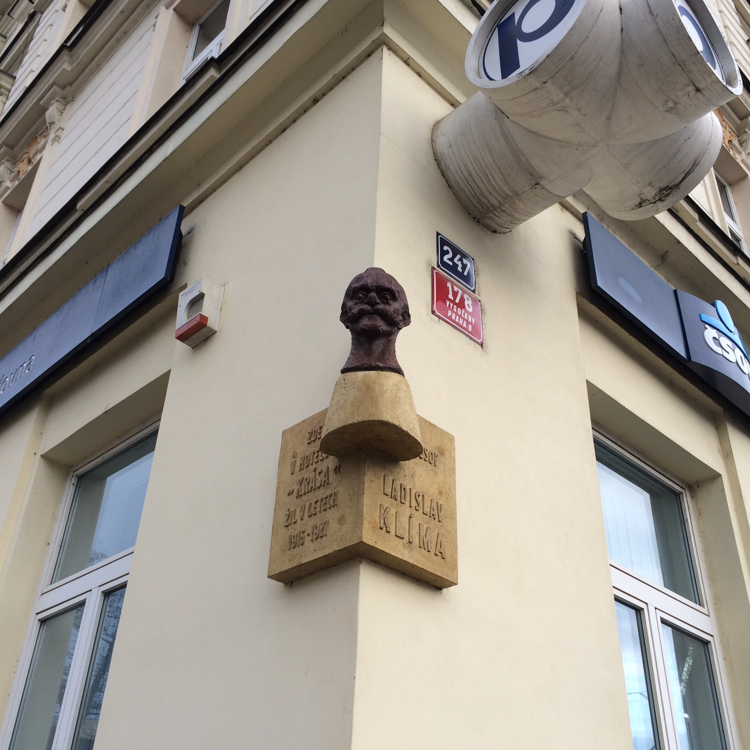 Sculpture on a house in Sokolovská street in Vysočany remembering that Ladislav Klima, Czech philosopher and poet, lived here in the former hotel between 1915 and 1927.